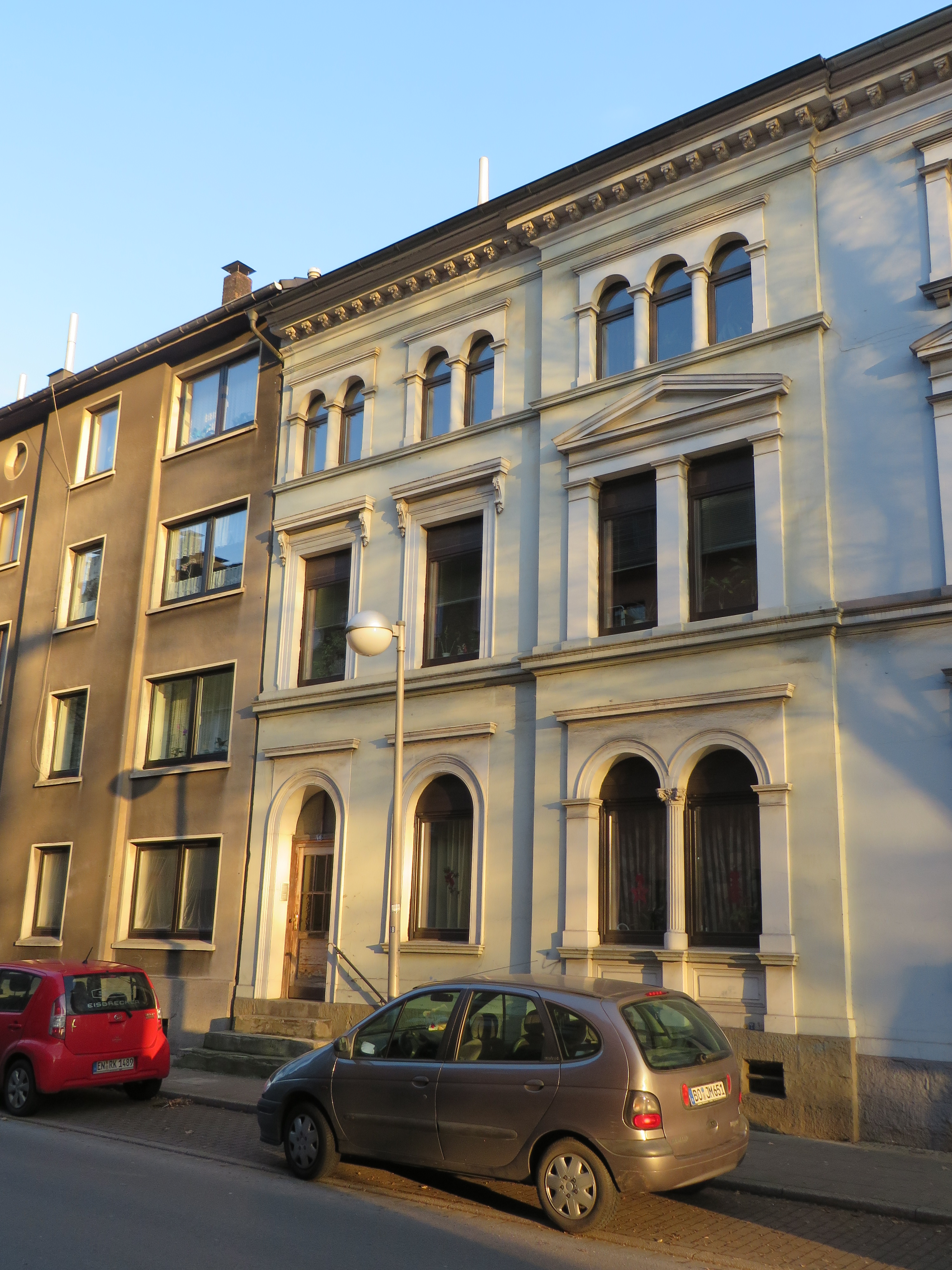 House Breite Straße 40 in Witten, GermanyEsperanto: Domo Breite Straße 40 en Witten, Germanio